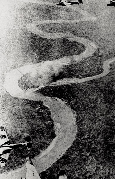 Japanese bombing chinese main road in Sichuan.